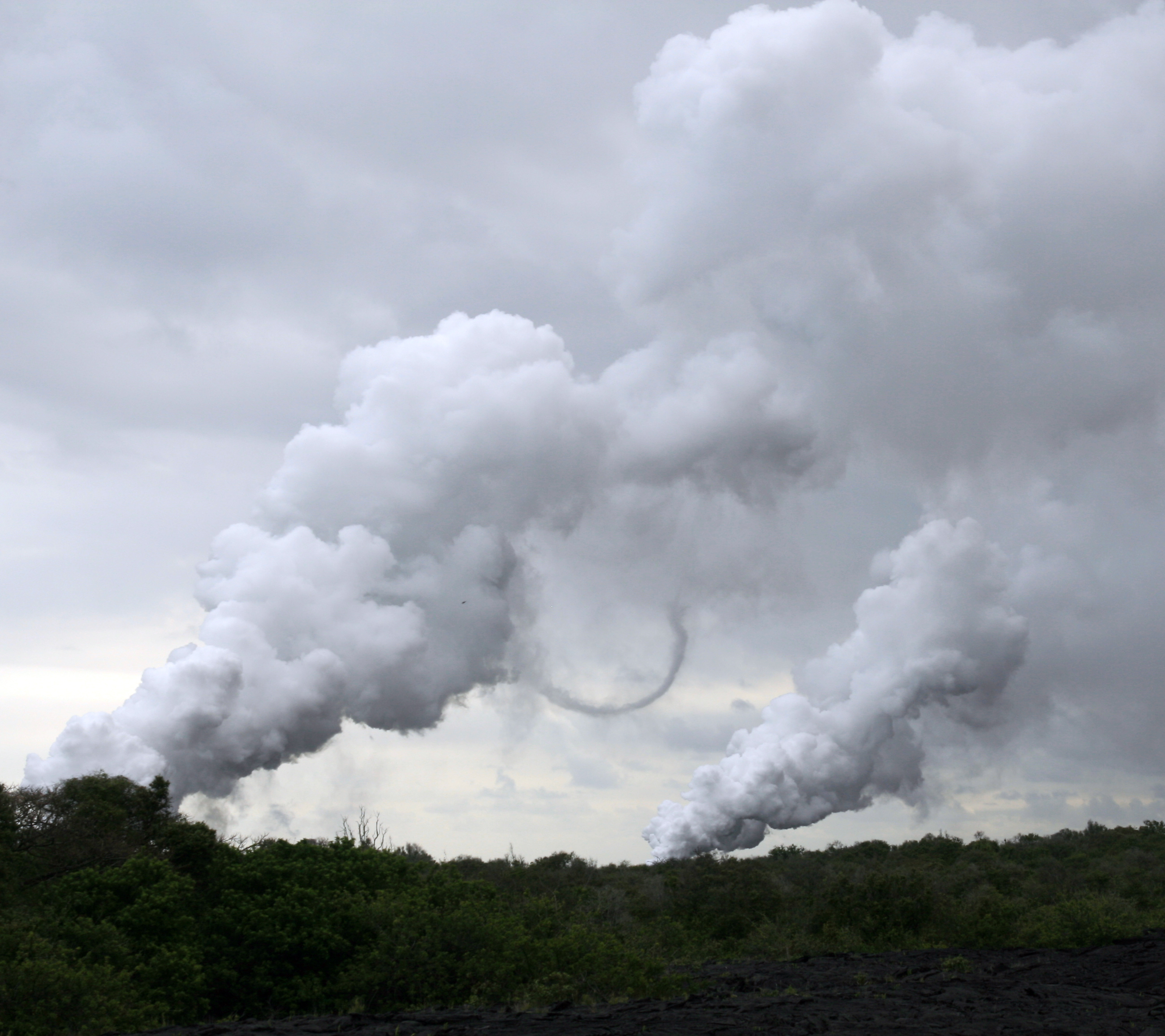 Steam devil